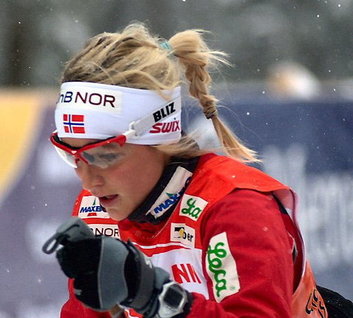 Therese Johaug at the Tour de Ski 2010 in Oberhof